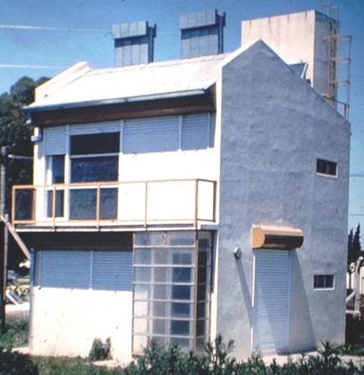 External view of "La Casa Solar de La Plata", the Solar House of La Plata in La Plata, Argentina. Design by IAS, under directions of Ard. Elias Renfeld. Built in 1980.